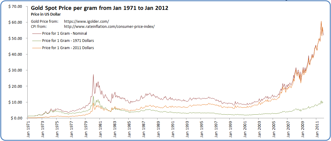 This Chart shows the spot price of gold per gram in US dollars and shows the spot price adjusted to inflation (using the US CPI) from 8 Jan 1971 to 8 Jan 2012.